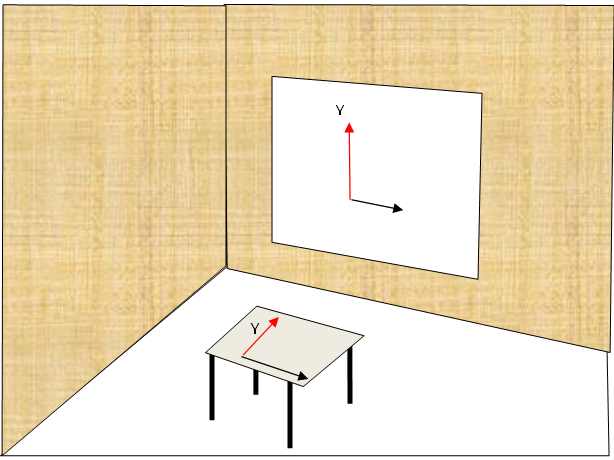 a 3d drawing to illustrate the mystery of the horizontal y-axis